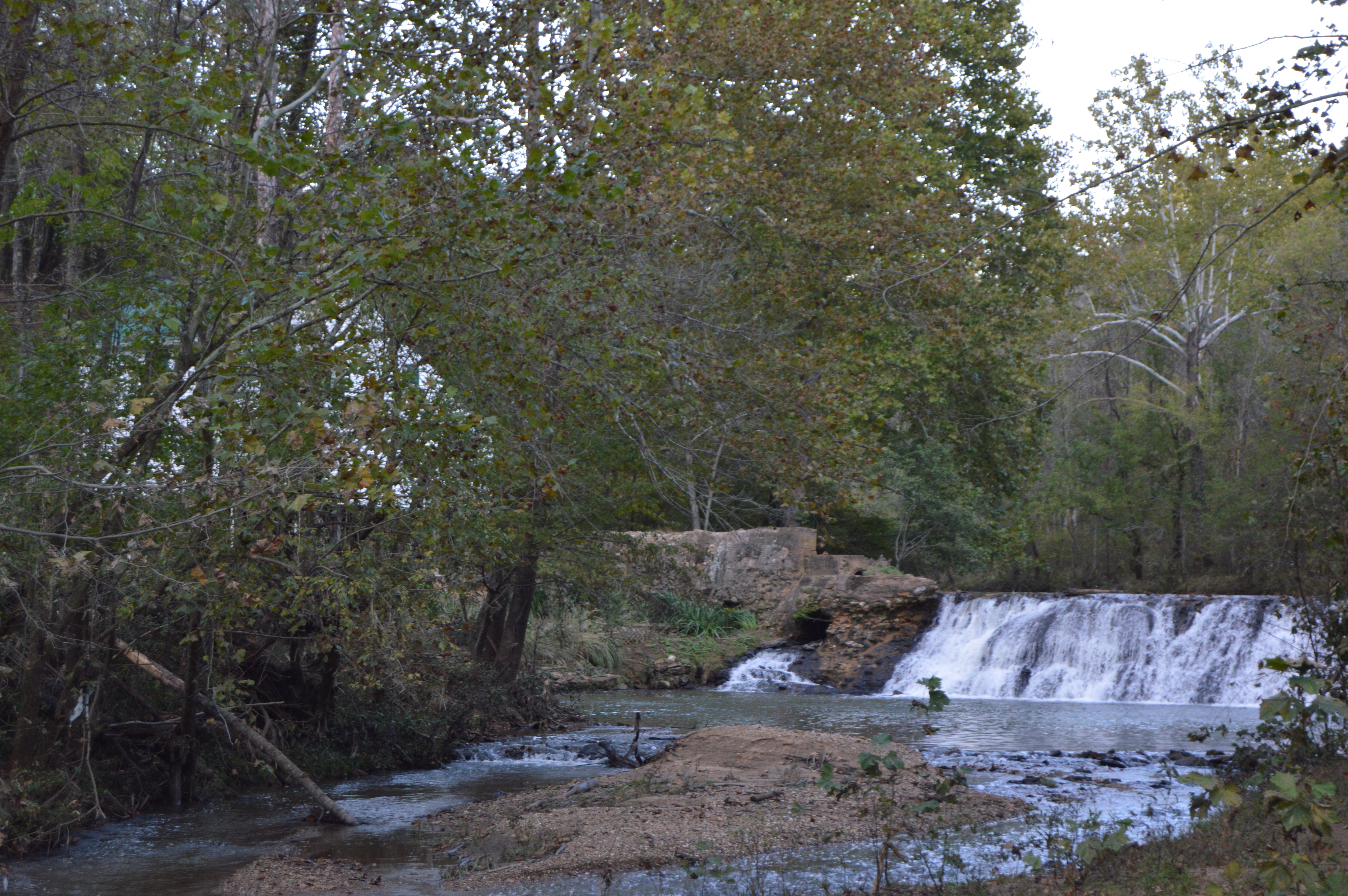 Looking upstream along Wreck Island Creek from Mill Pond Road, at Stonewall Mills, in Appomattox County, Virginia, United States.